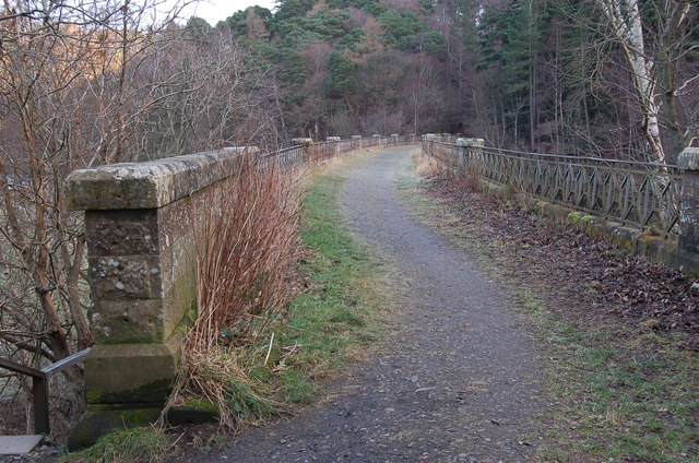 Tweed Walk footpath on Neidpath Viaduct